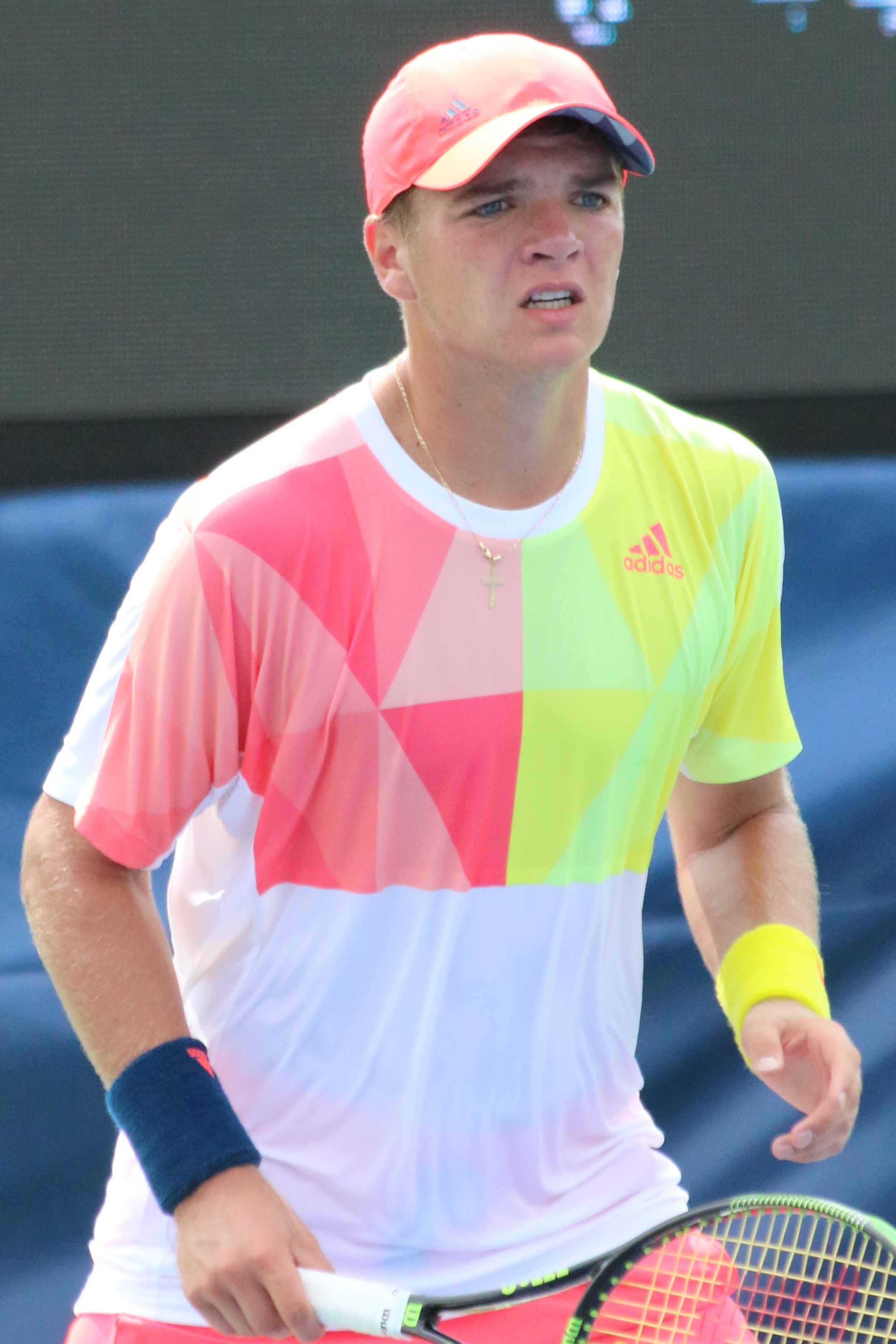 McNally US16 (3)